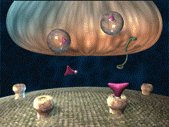 Cutted out from the slide-source